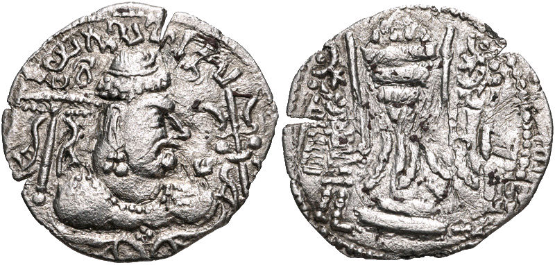 Toramana of the Alchon Huns Circa AD 490-515. AR Drachm (27mm, 2.68 g, 2h). Crowned bust right; filleted parasol behind, filleted trident before; Brahmi JAYATU TOROMANA above / Fire altar, attendants flanking.